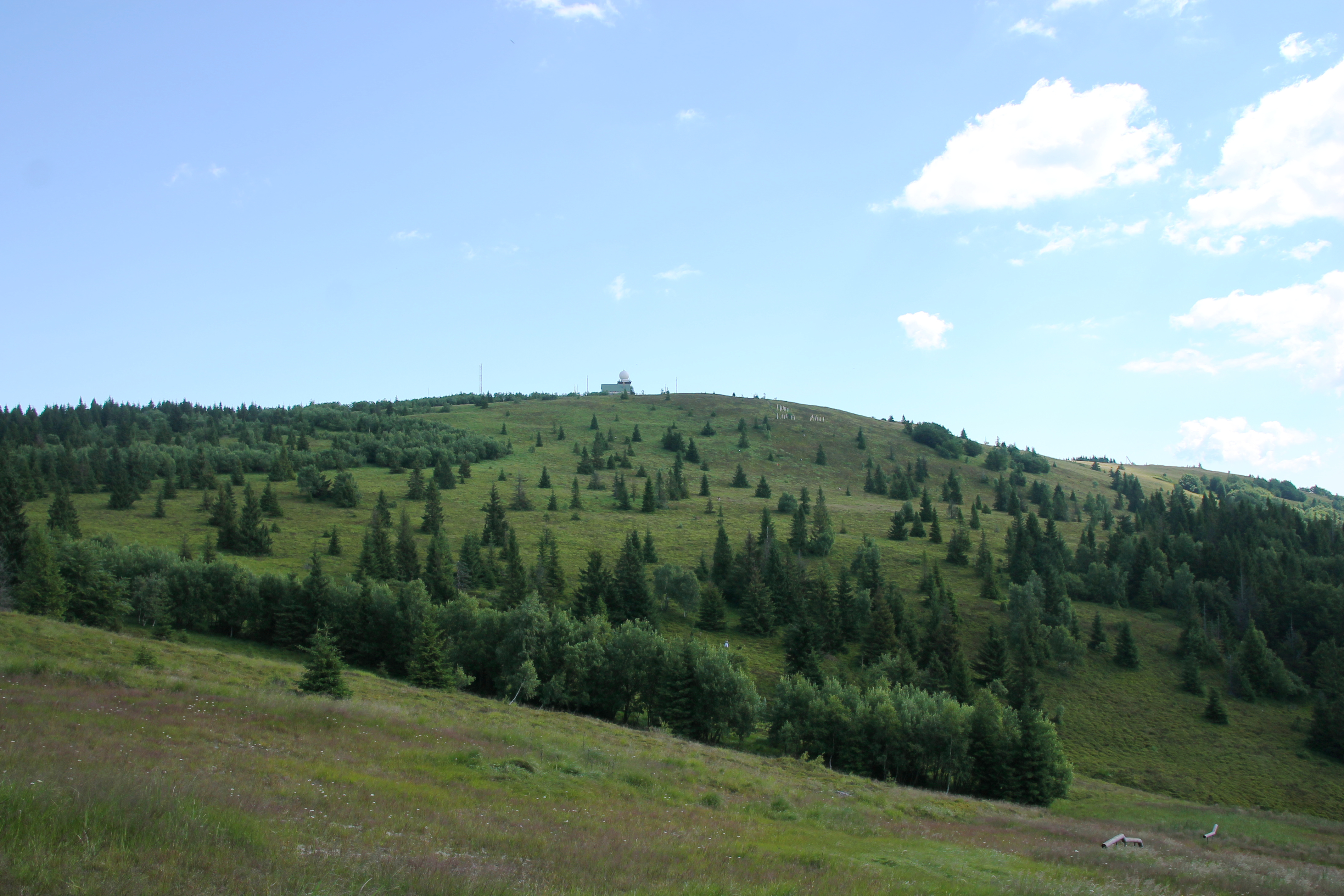 Kojšovská hoľa